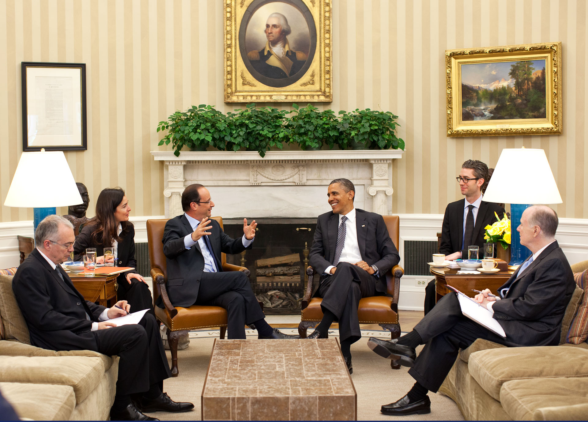 Bilateral meeting between President Barack Obama of United States of America and President François Hollande of France, in the Oval office, White House.